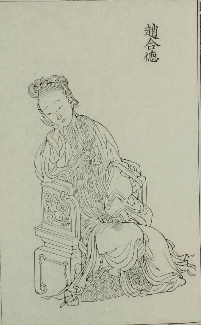 This is a image about the Consort Zhao Hede.